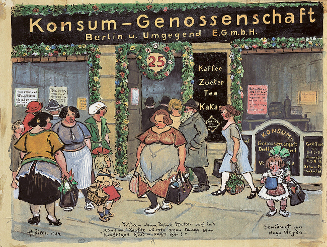 Humorous watercolor by Heinrich Zille, depicting the "Berlin Snout" in front of a consum' coop store